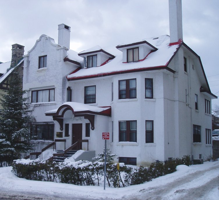 Taken by SimonP in January 2005